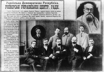 An article from a newspaper featuring the Declaration of the Ukrainian Central Rada